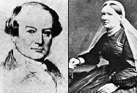 Baden Powell and Henrietta Grace Smyth